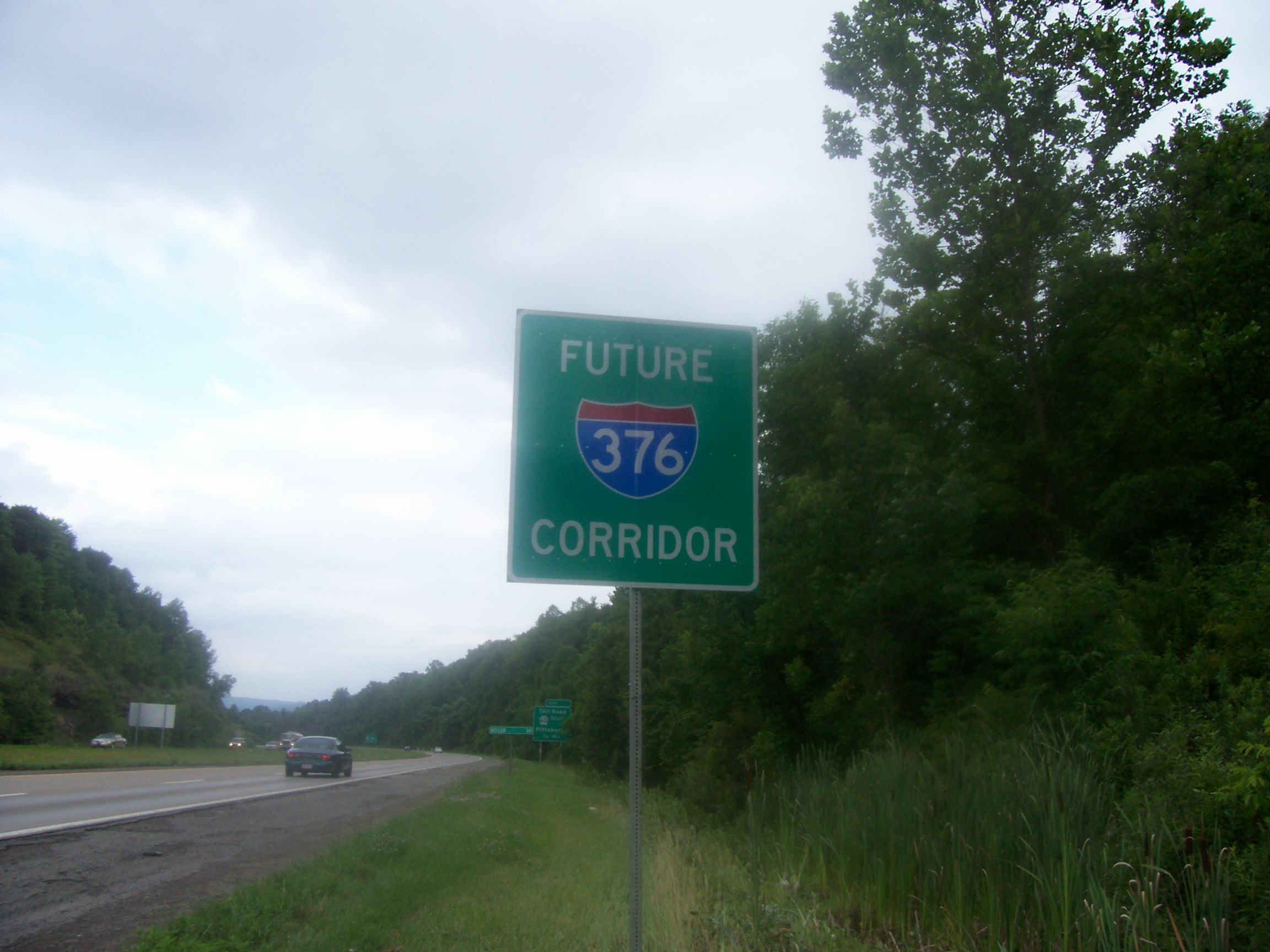 One of many signs stating that PA 60 will soon become part of I-376. Took the image myself. Jgera5 19:36, 12 May 2006 (UTC)